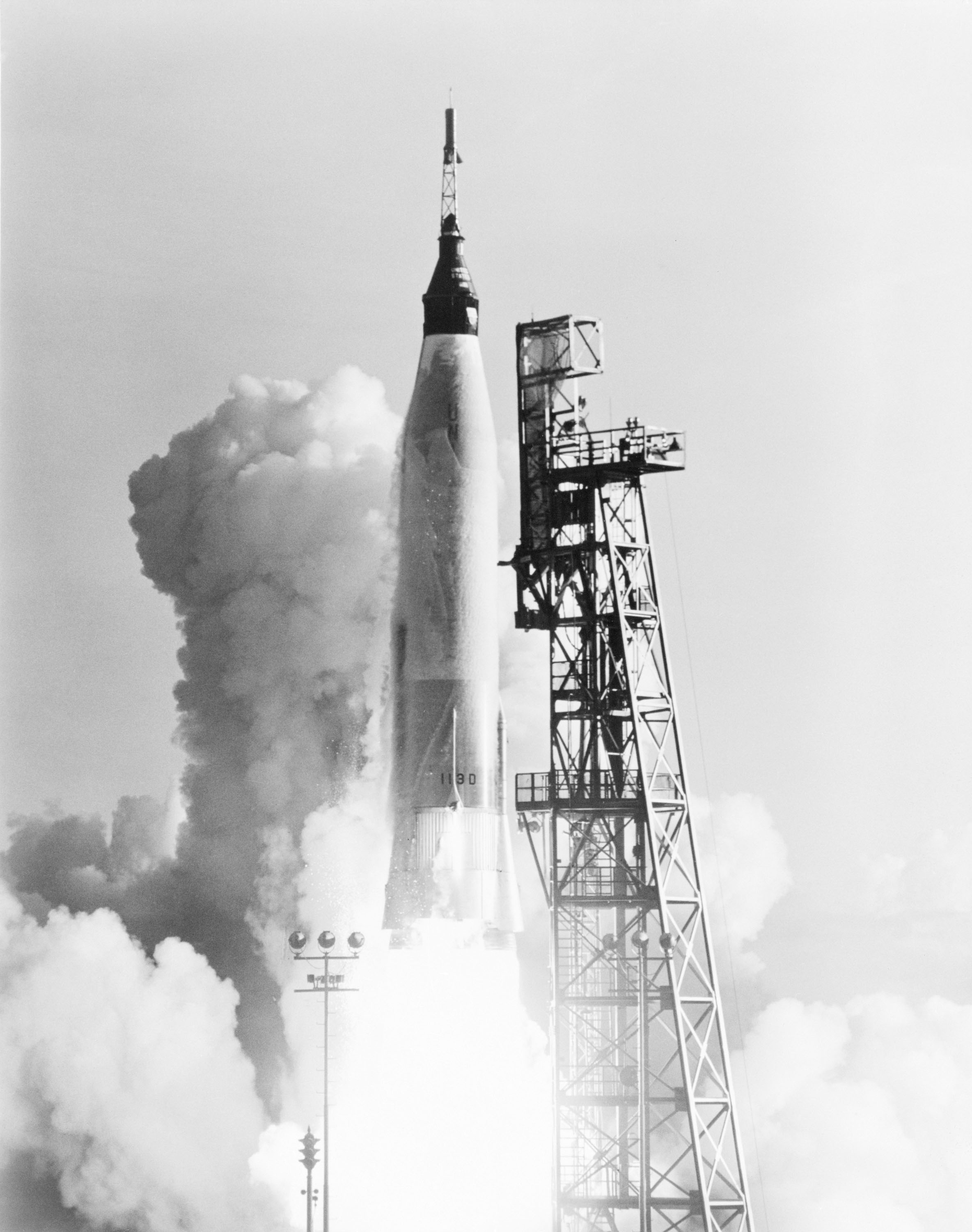 Launch of the Mercury-Atlas 8 "Sigma 7" mission